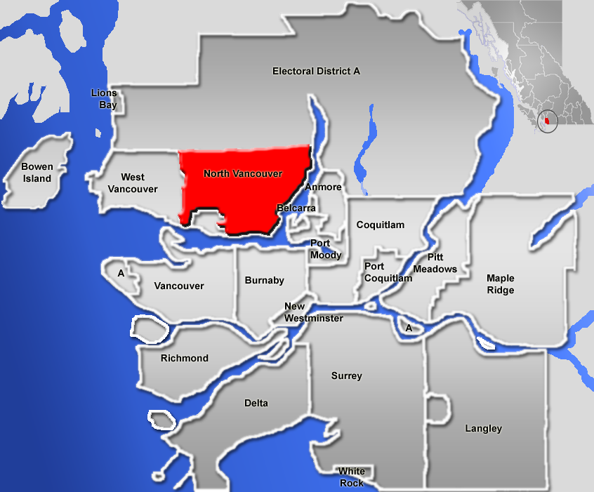 Location of North Vancouver (district municipality), Greater Vancouver Area, British Columbia